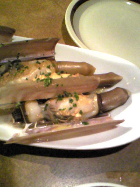 a dish of razor clams